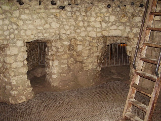 Grimes Graves , neolithic flint mine The excavated pit of a flint mine at Grimes Graves, a layer of chalk a few feet under ground attracted the miners. The site is managed by English Heritage and one pit is open, another is scientific. The site is quiet and tranquil and well worth the visit.